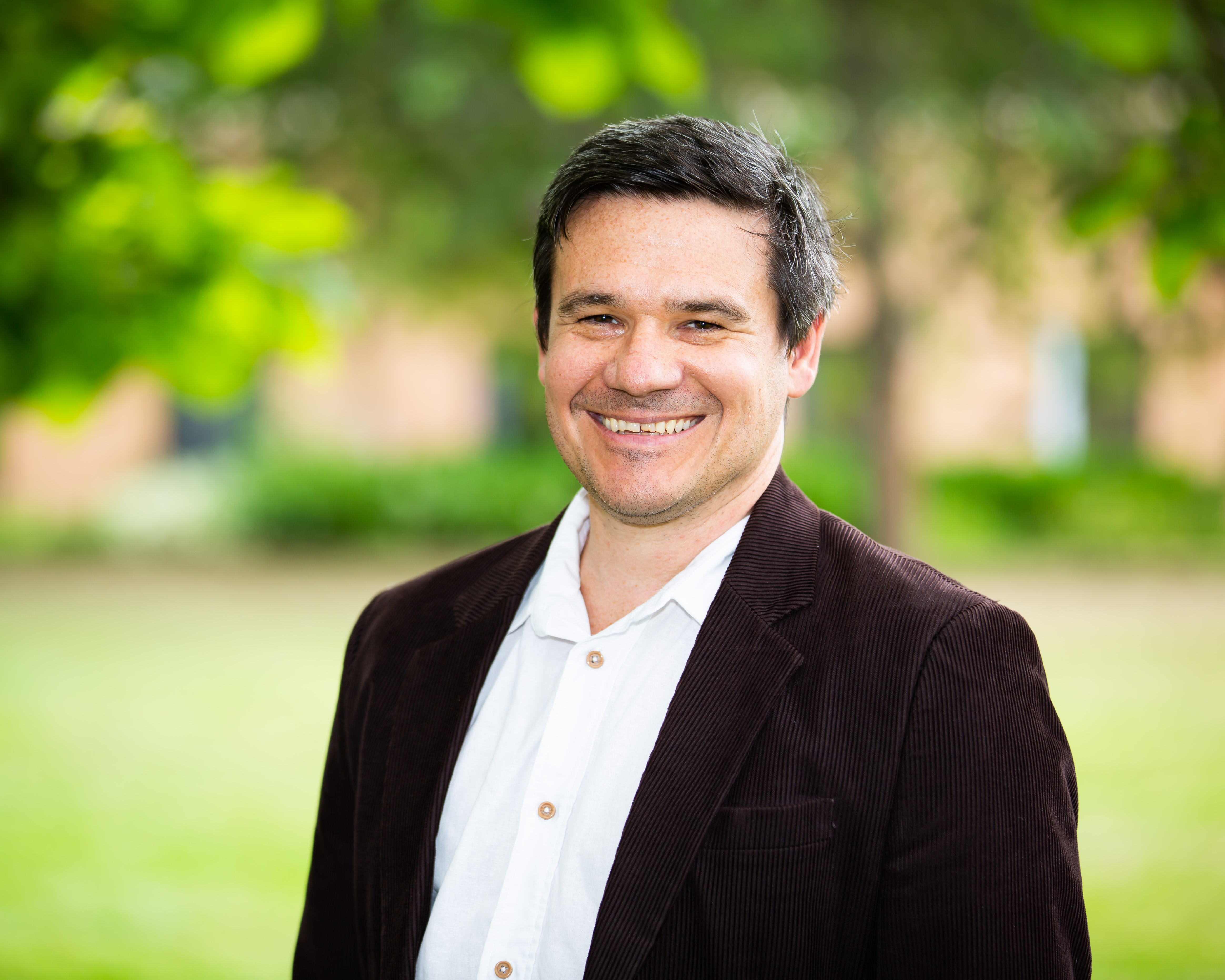 Chris Boyle bio pic 2019